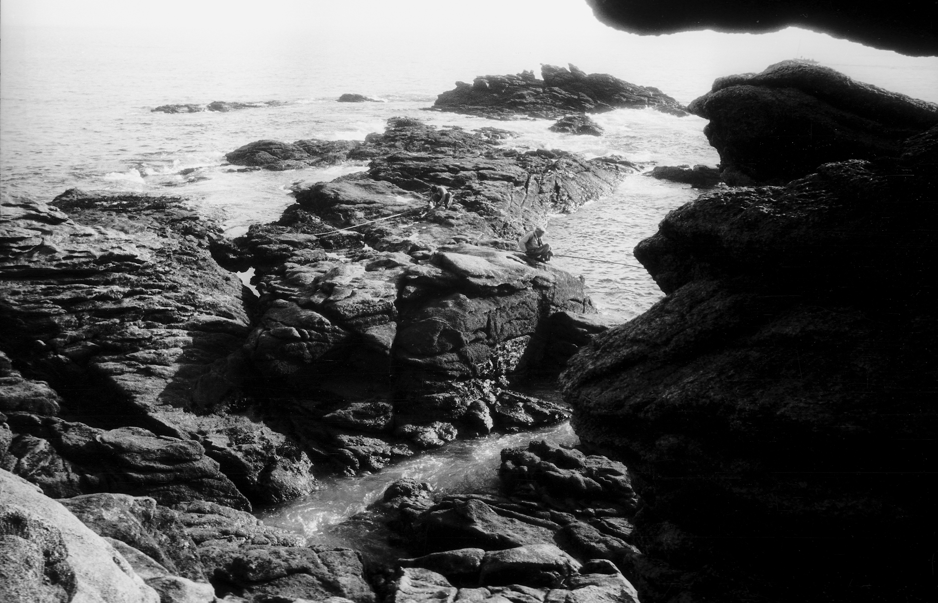 Cliffs at "La Côte Sauvage" (The wild coast) at Quiberon in Britanny. Two men are fishing from the cliffs. Klippor vid "La Côte Sauvage" (den vilda kusten) vid Quiberon i Bretagne. Två män fiskar från klipporna. Location: Quiberon, Lorient, Morbihan, Bretagne (Brittany), France Photograph by: Berit Wallenberg Date: 30.09.1937 Format: Film Persistent URL: Read more about the photo database (in english)